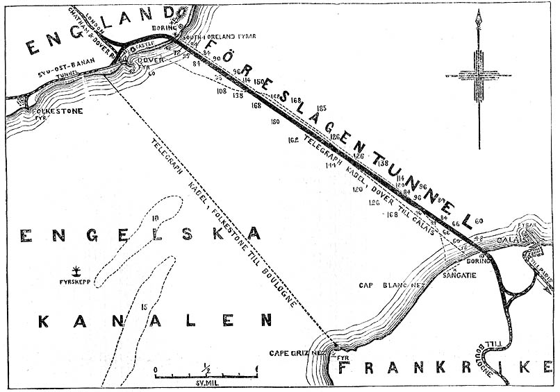 Suggestion for the Eurotunnel from the mid 19th century